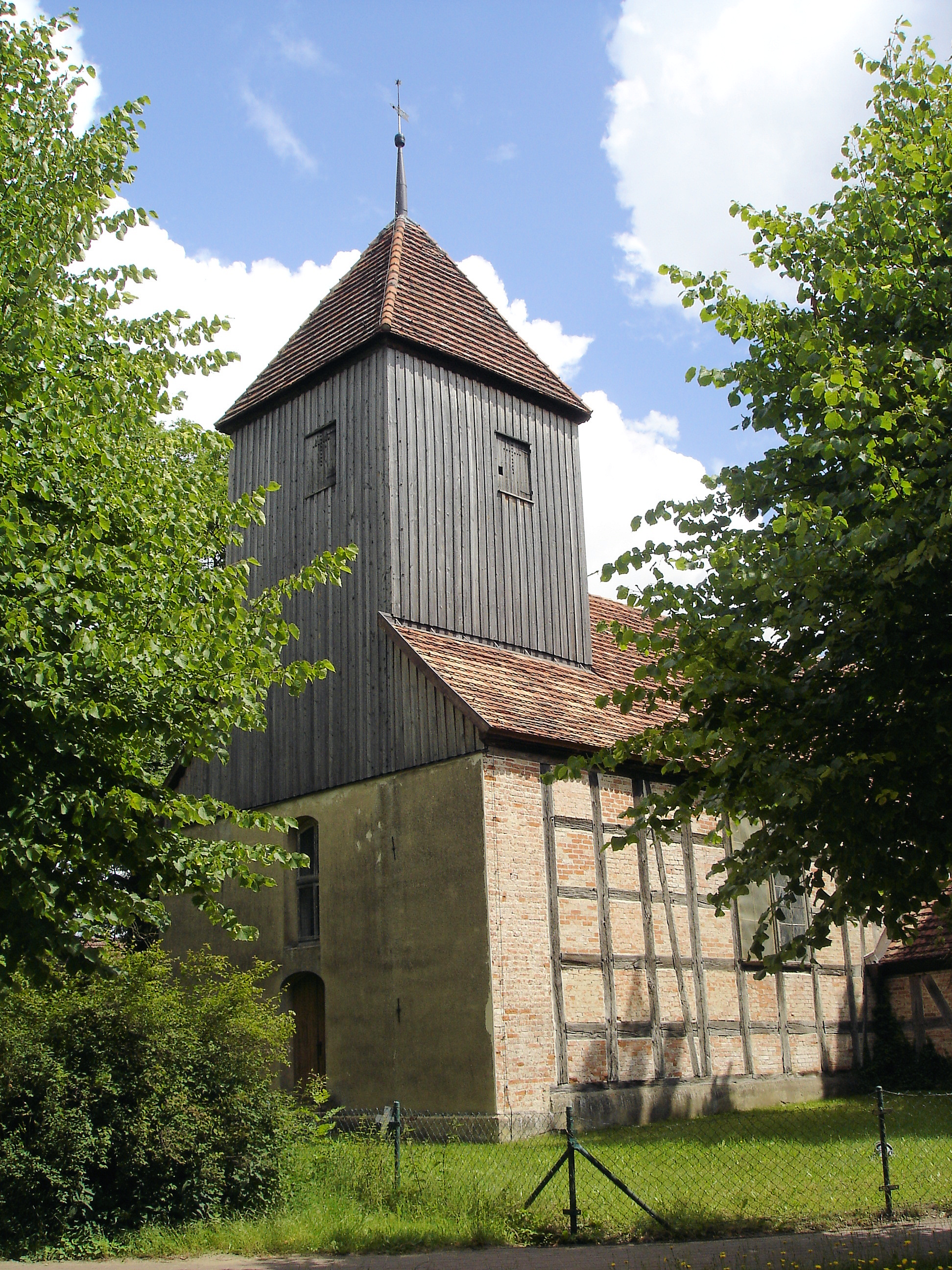 Church in Lärz, Mecklenburg, Germany